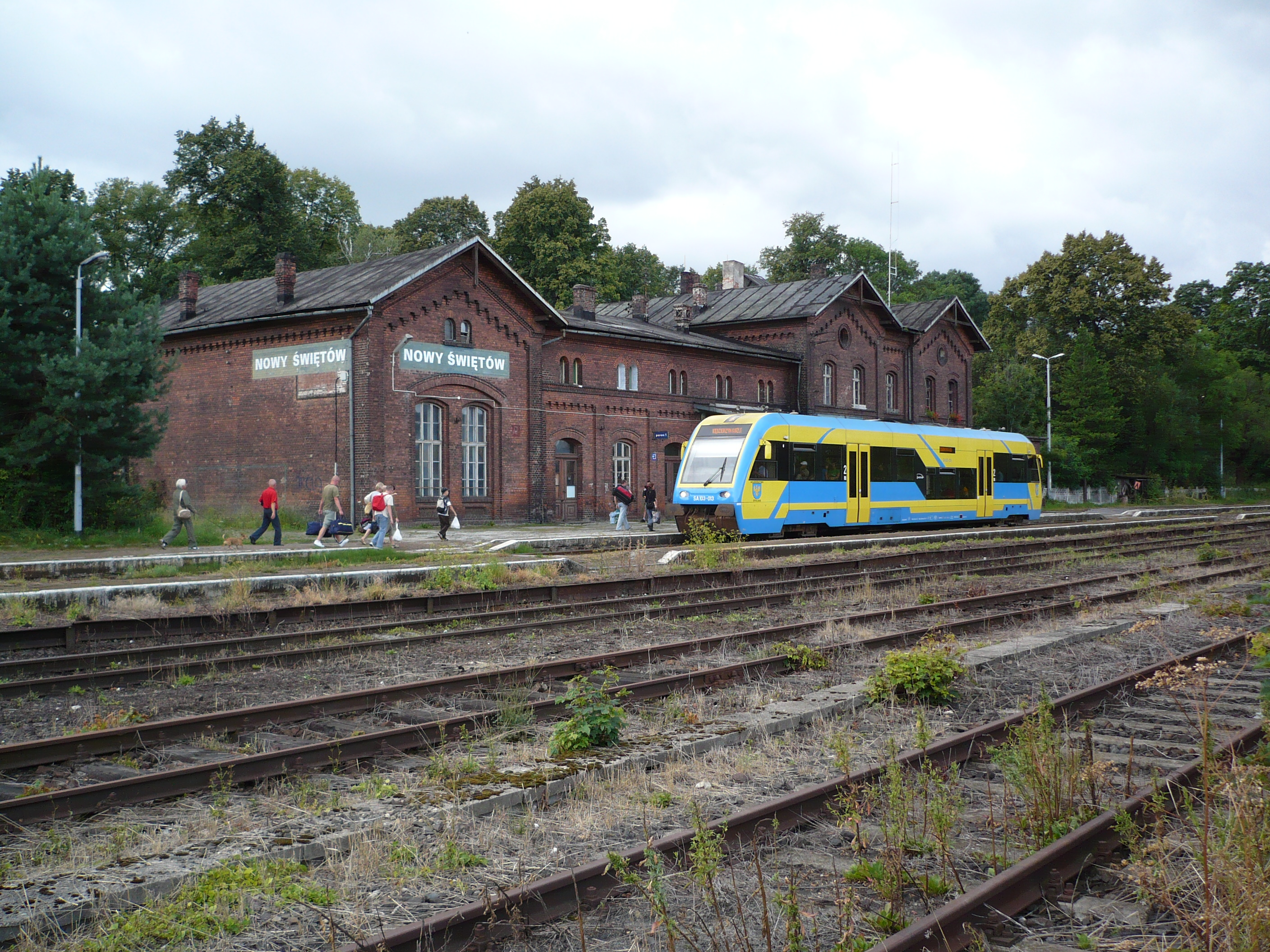 Nowy Świętów (Deutsch Wette), SA103-013 to Kędzierzyn Koźle